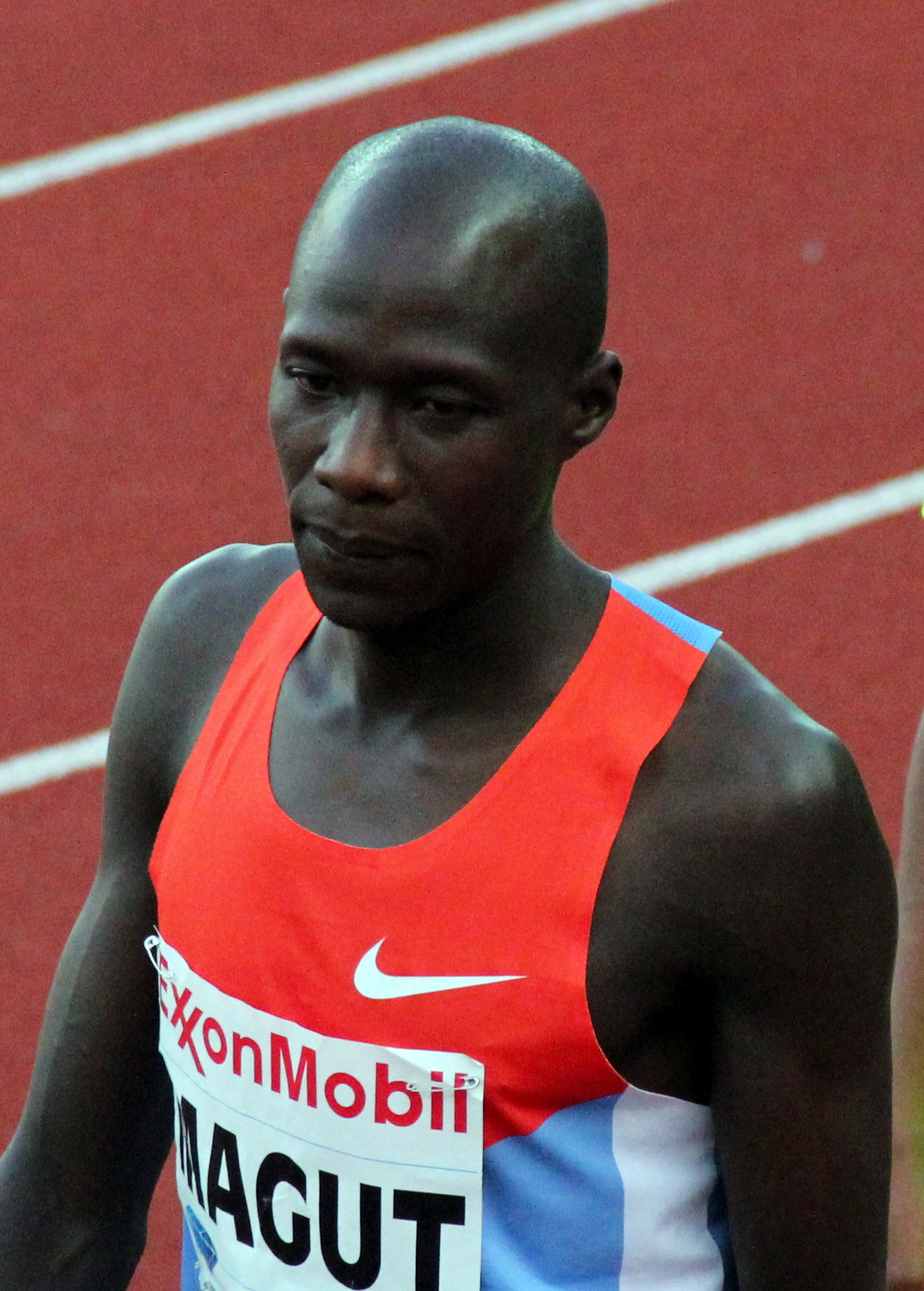 James Magut at the 2012 Bislett Games